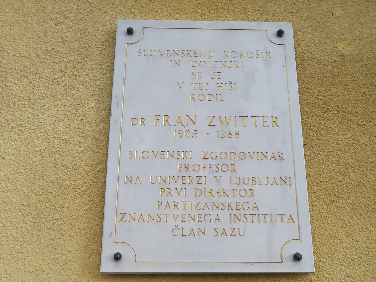 Spominska plošča na rojstni hiši Frana Zwittra v Beli Cerkvi